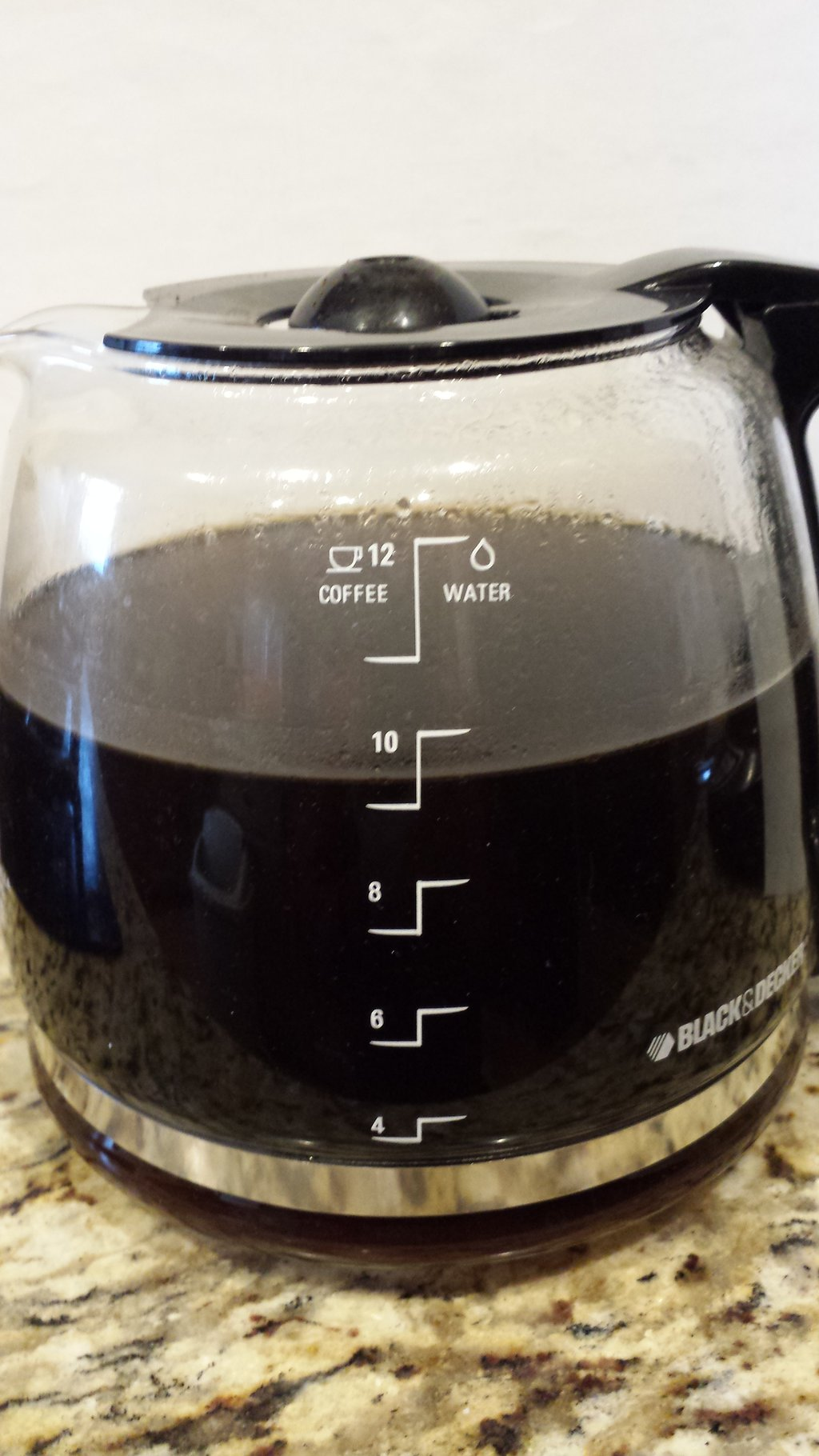 Image showing the non-conventional measurements used in brewing coffee.